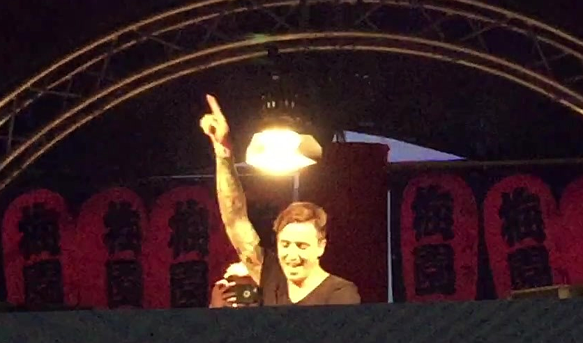 Blasterjaxx playing live at Airbeat One Festival in Germany